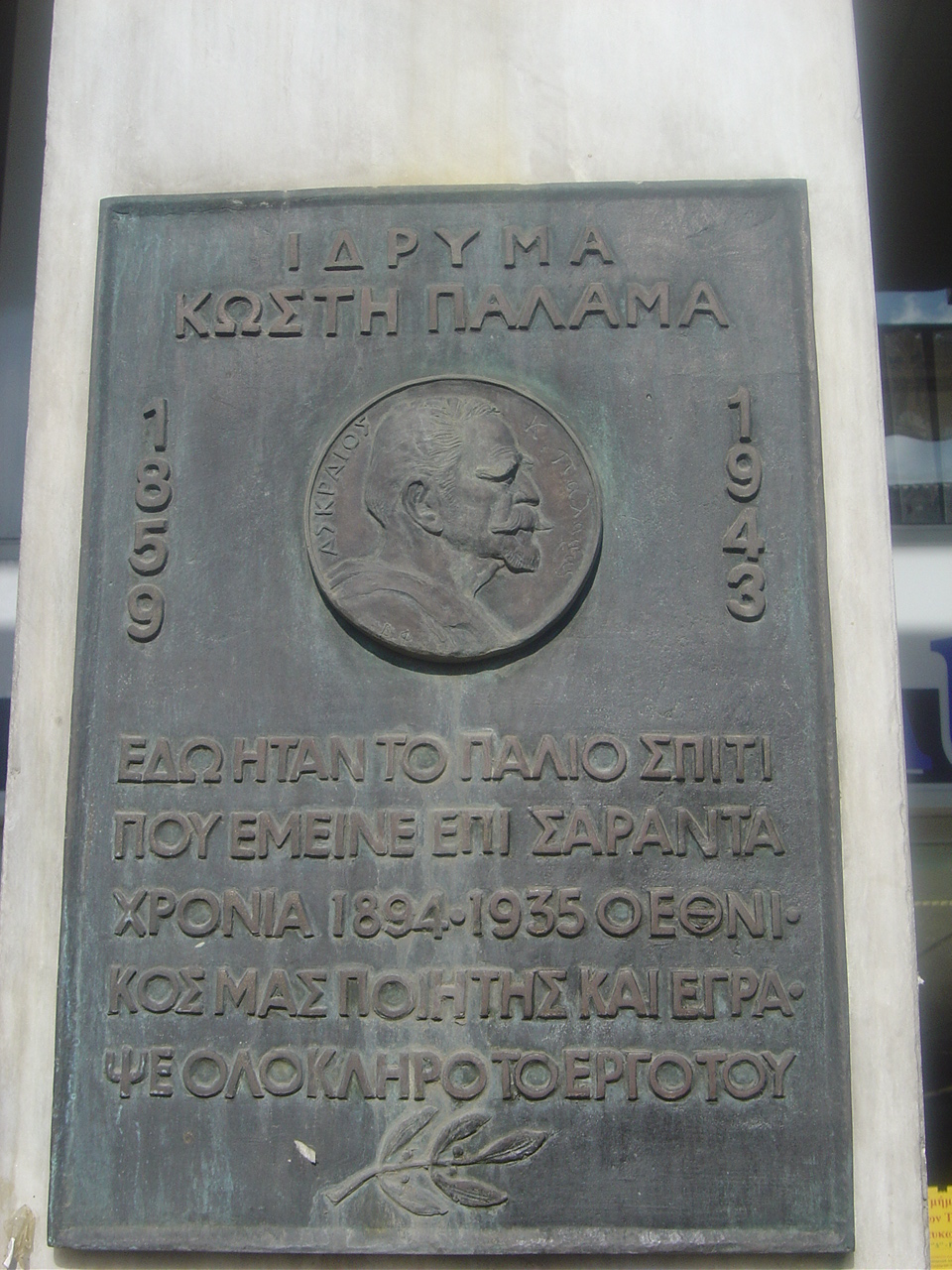 Entities without description